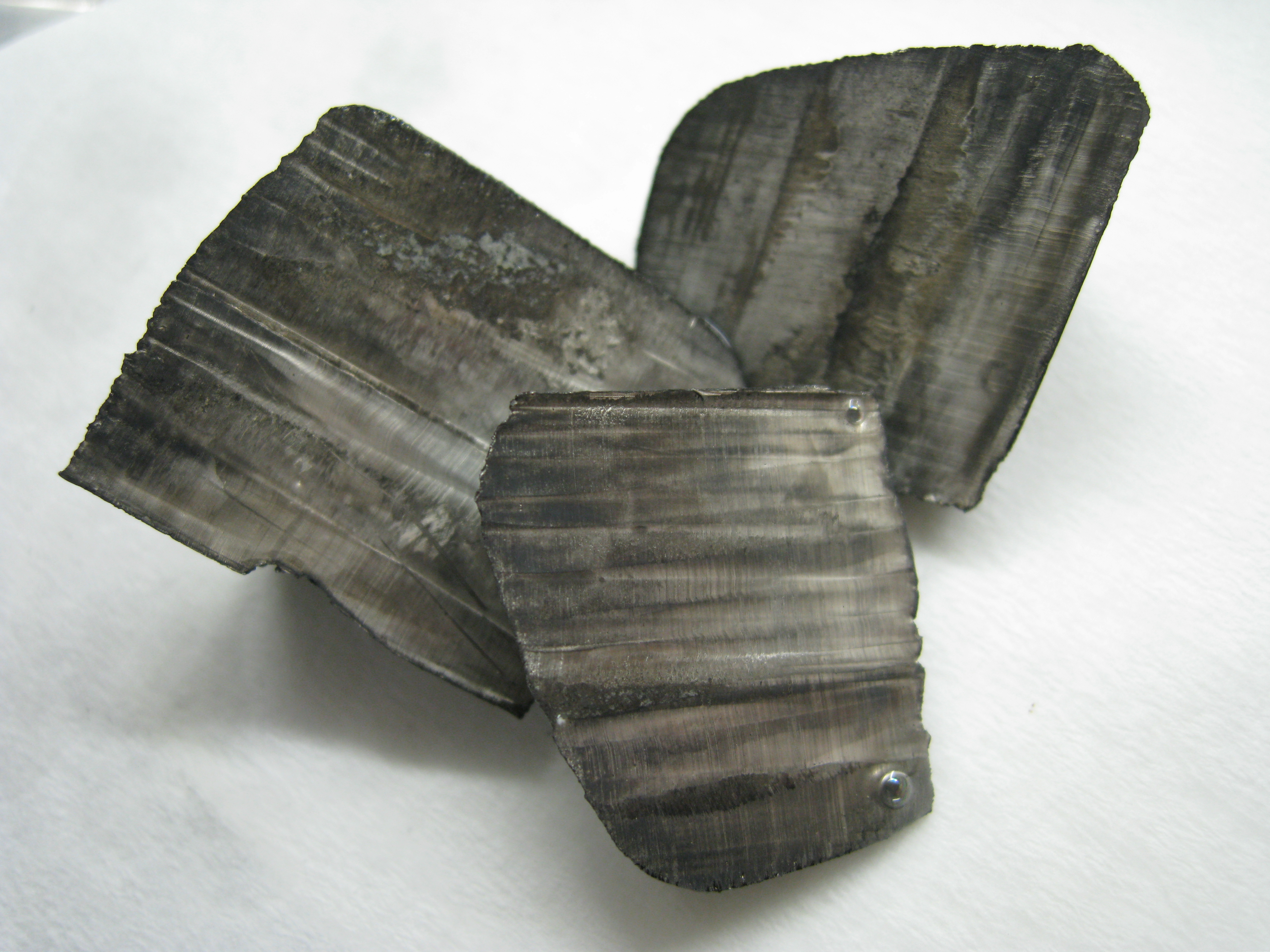 Pieces of Lithium metal from the Dennis s.k collection